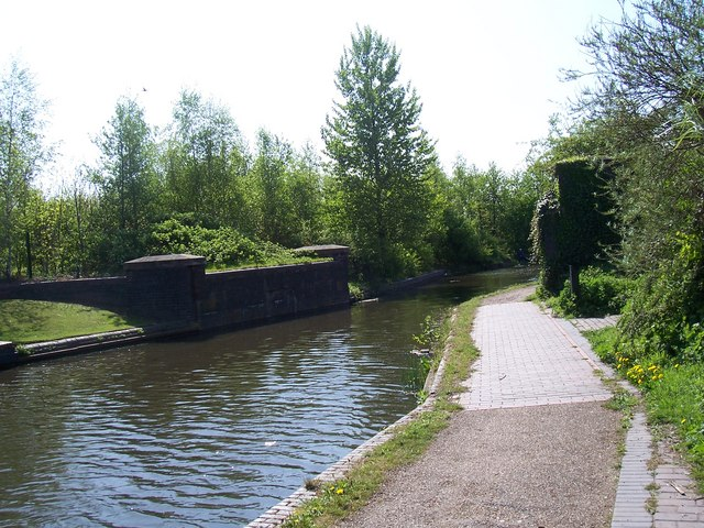 Bridge no more - Walsall Canal Situated at the end of Blakeley Wood Road, this bridge was deemed no longer necessary.